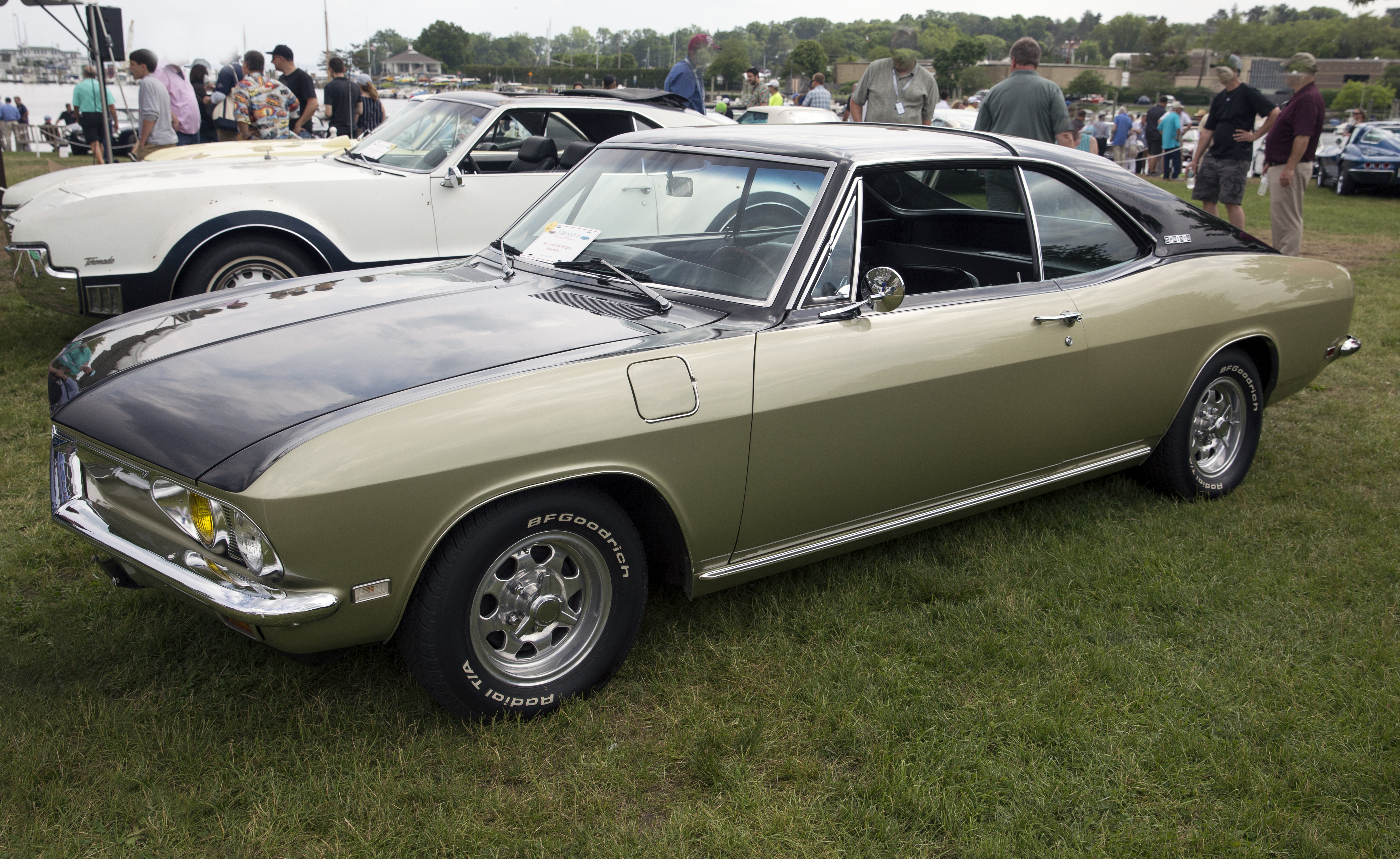 A 1968 Corvair Corsa Fitch Sprint seen at the 2018 Greenwich Concours d'Elegance. Fitted with the rare 8-hole Hands mag wheels with centre spinners and the painted Venttop (fibreglass roof cap with flying buttresses), which means that the modifications were carried out at Fitch's Falls Village workshop rather than dealer installed.